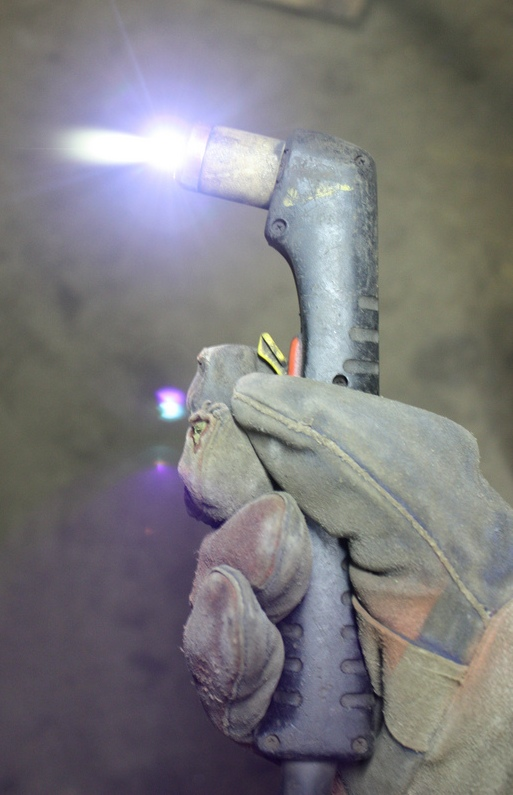 Hand-held Plasma cutter